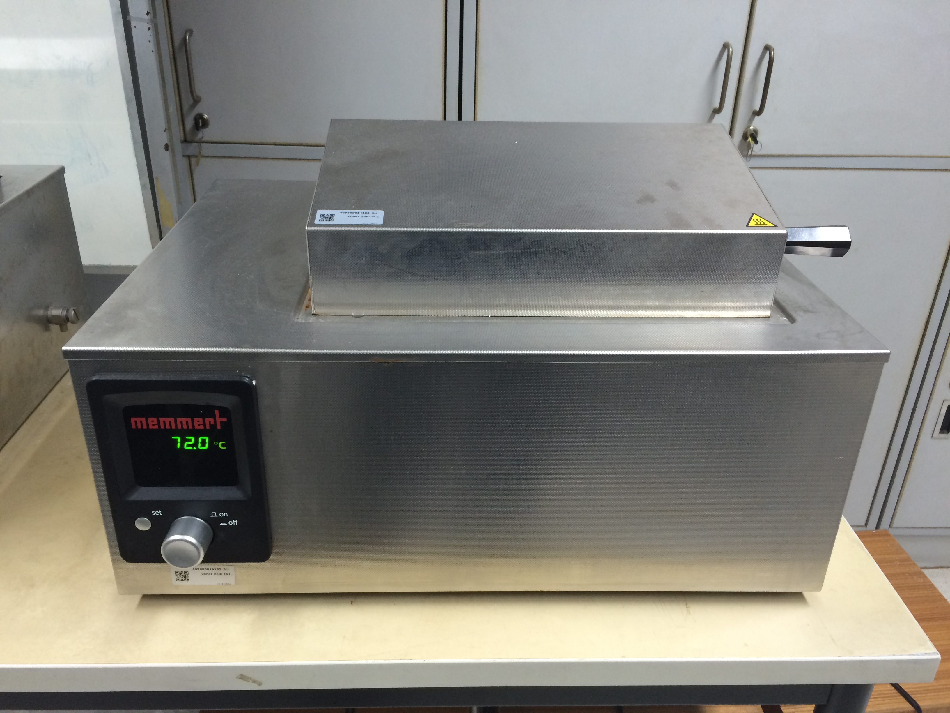 Circulating water bath